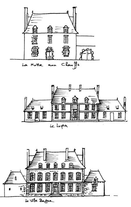 drawing of the architecture of the malouinières